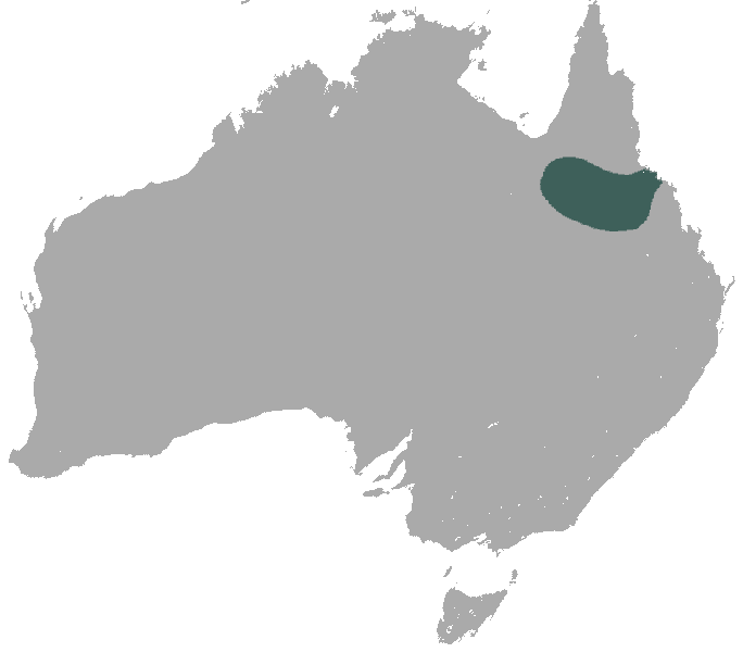 Allied Rock Wallaby (Petrogale assimilis) range